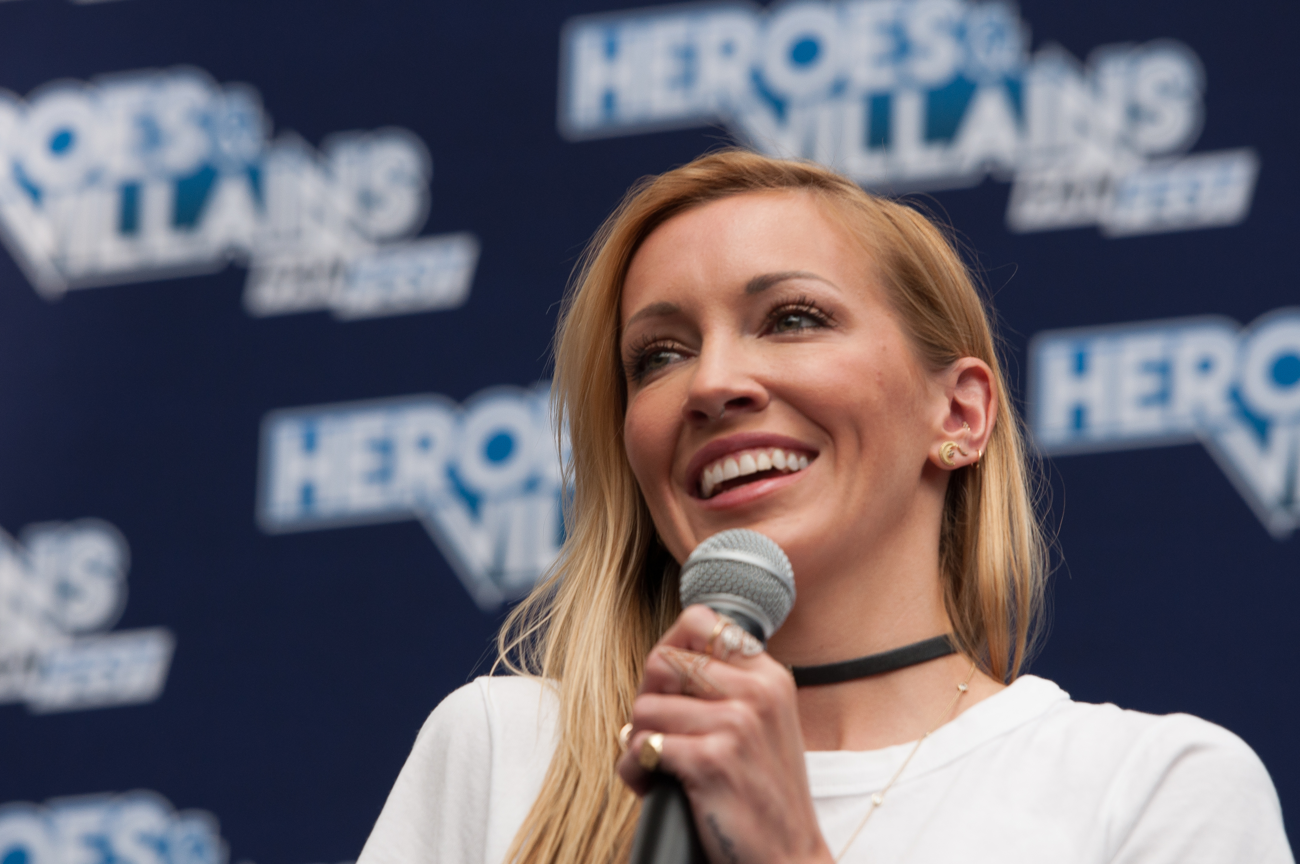 Katie Cassidy at HVFF London 2017